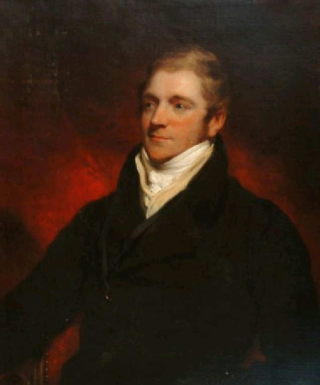 Thomas Tooke Esq., a bust-length portrait of the gentleman wearing over-jacket and white cravat oil on canvas 75.5 x 63cm.